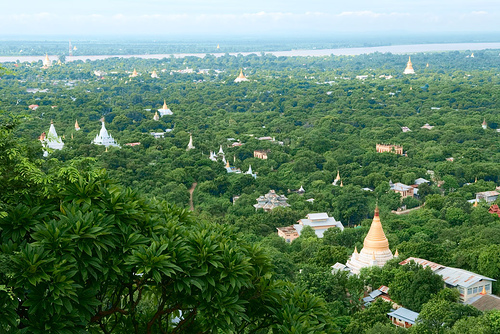 Sagaing, Burma.